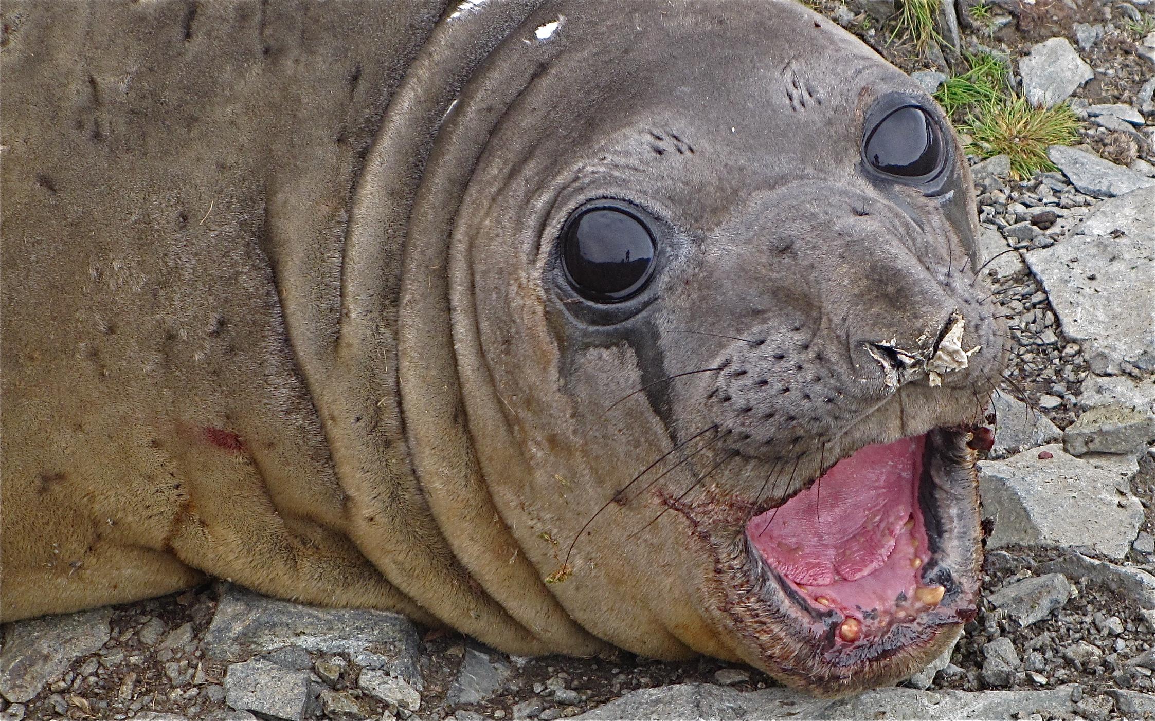 In Antarctica